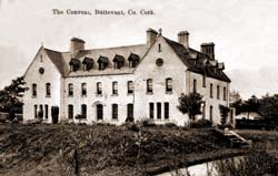 Buttevant Convent, by George Ashlin, from picture taken in 1879.